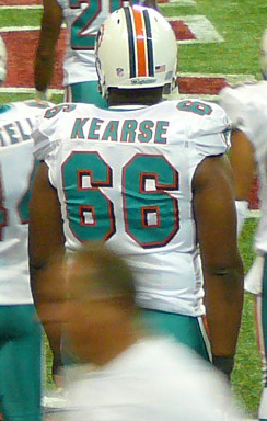 If used somewhere other than Wikipedia, Nelson, by name.